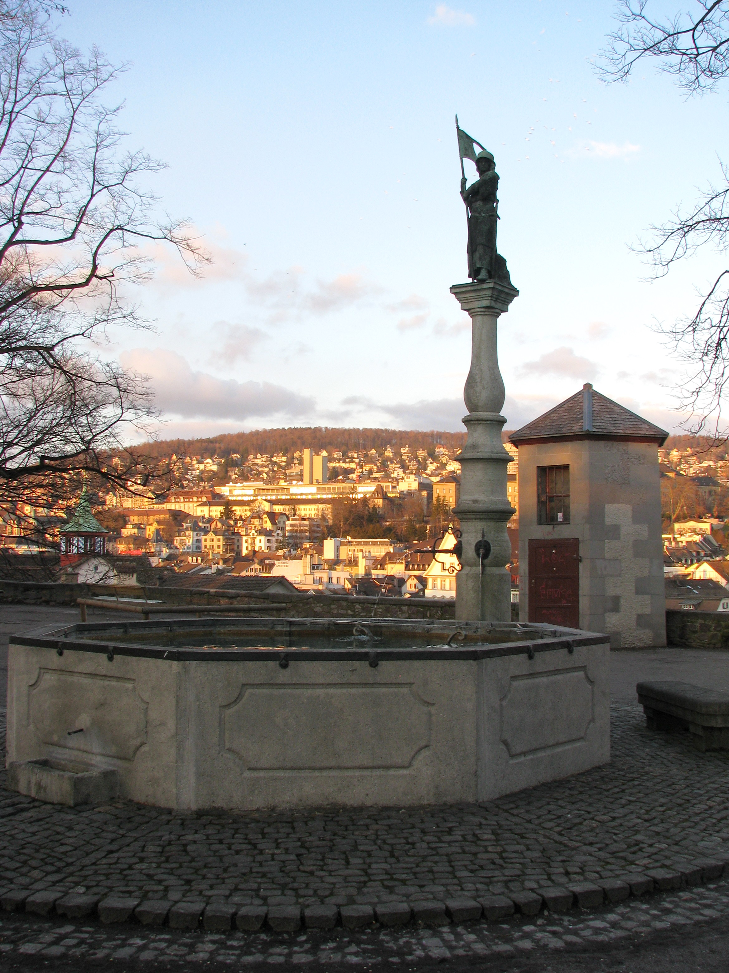 Zürich : Lindenhof hill, so called Hedwig fountain and pump station.